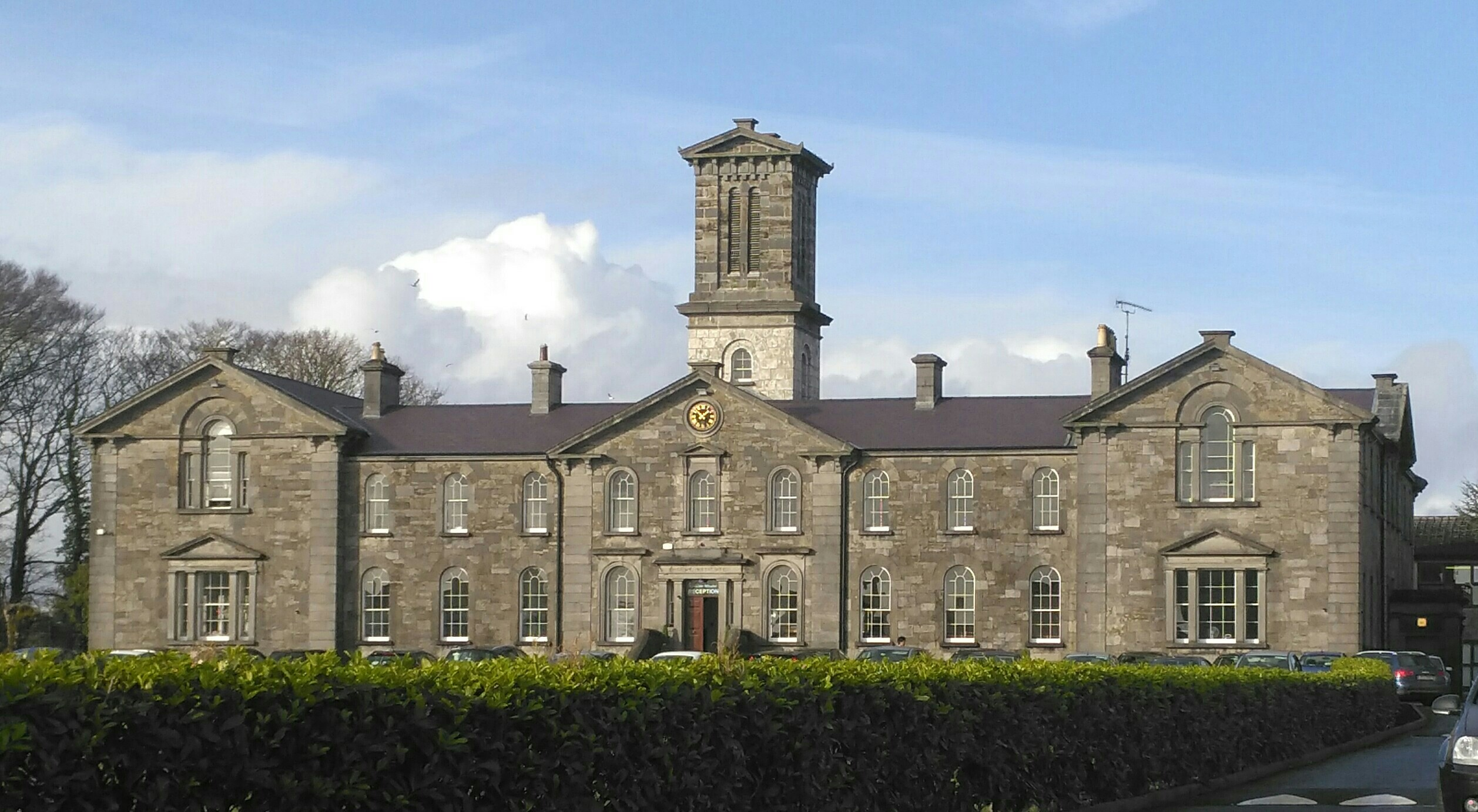 Coláiste Mhuire is a post-primary school located in Mullingar, County Westmeath, Ireland. Established in 1856, the main building is the Hevey Institute.